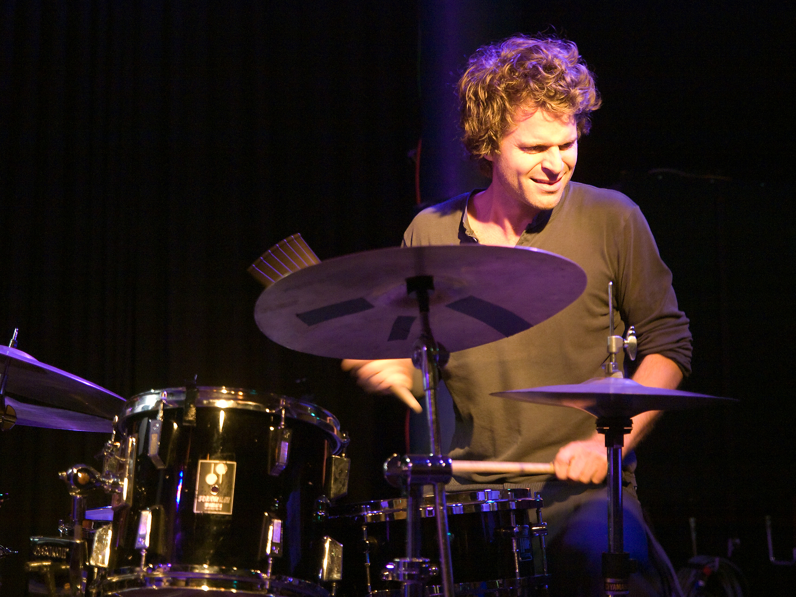 Samuel Rohrer, jazz drummer; Picture taken in Jazz Club Unterfahrt, Munich/Bavaria